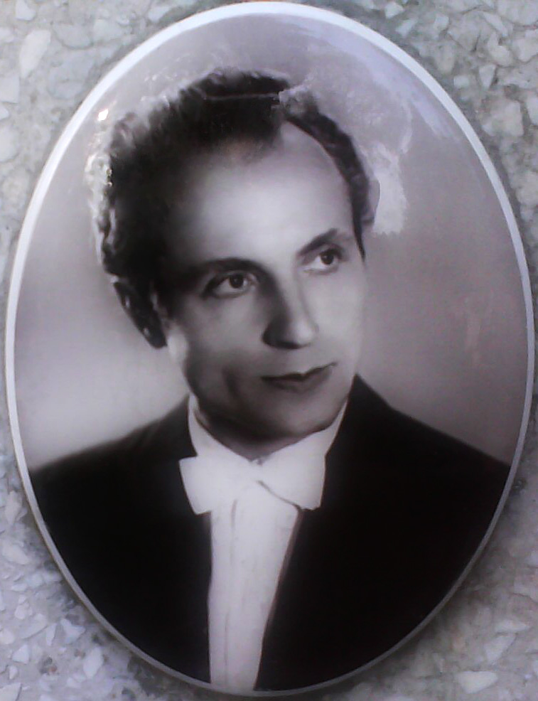 Image of Adam Andrzejewski from his grave.